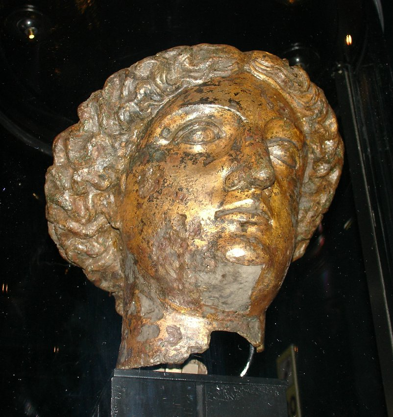 A head of Minerva found in ruins of Roman baths in Bath, England.